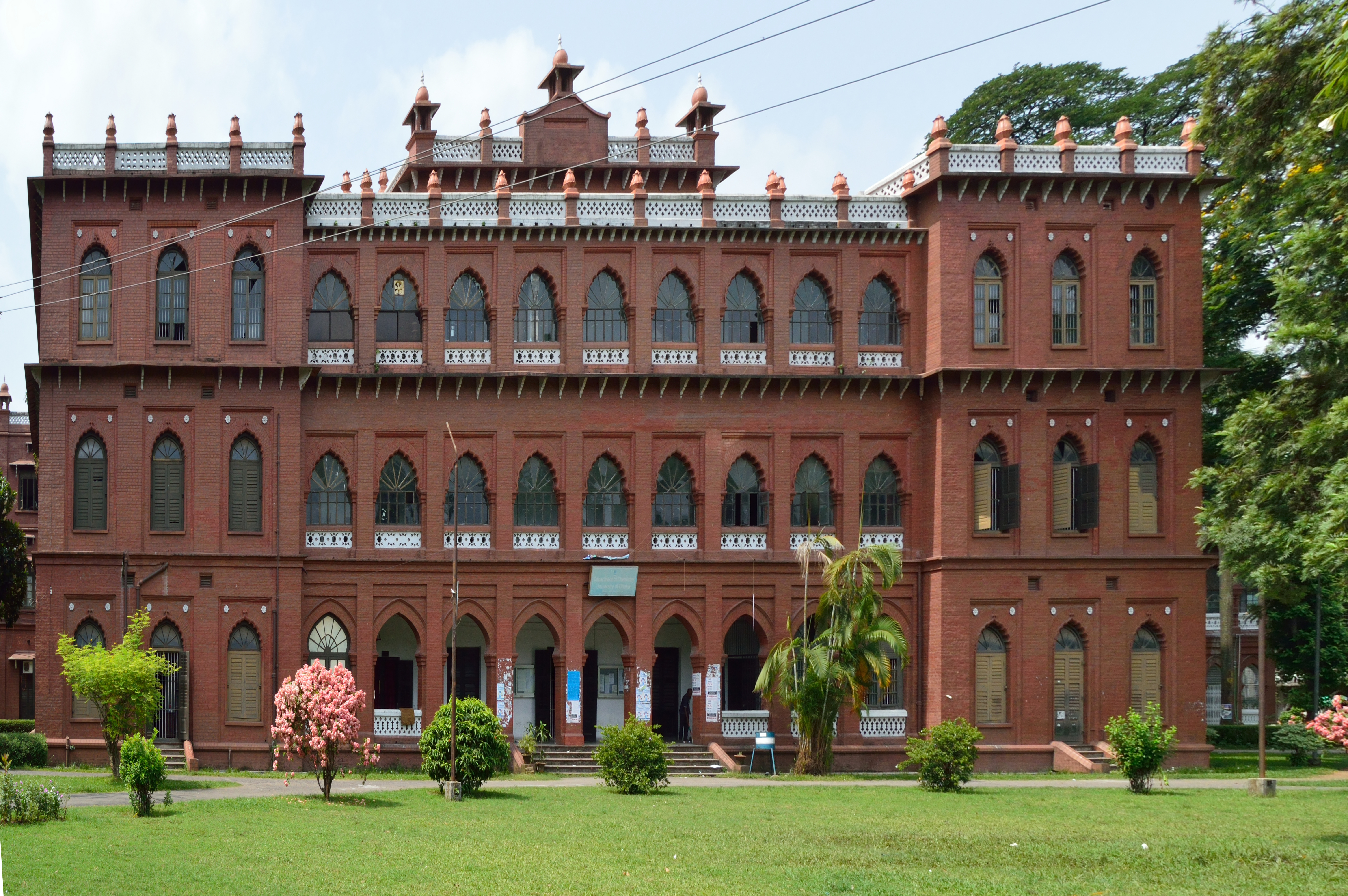 Department of Chemistry Building at the Dhaka university, Dhaka, Bangladesh.